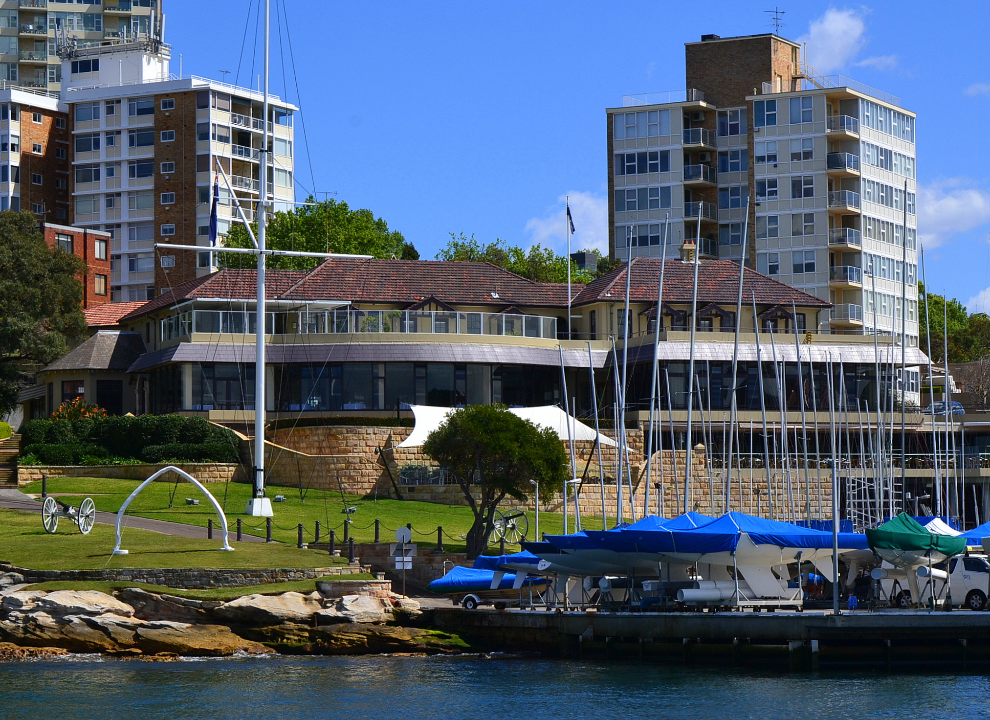 Royal Sydney Yacht squadron, Kirribilli, Sydney, where Michael Guider worked 1986